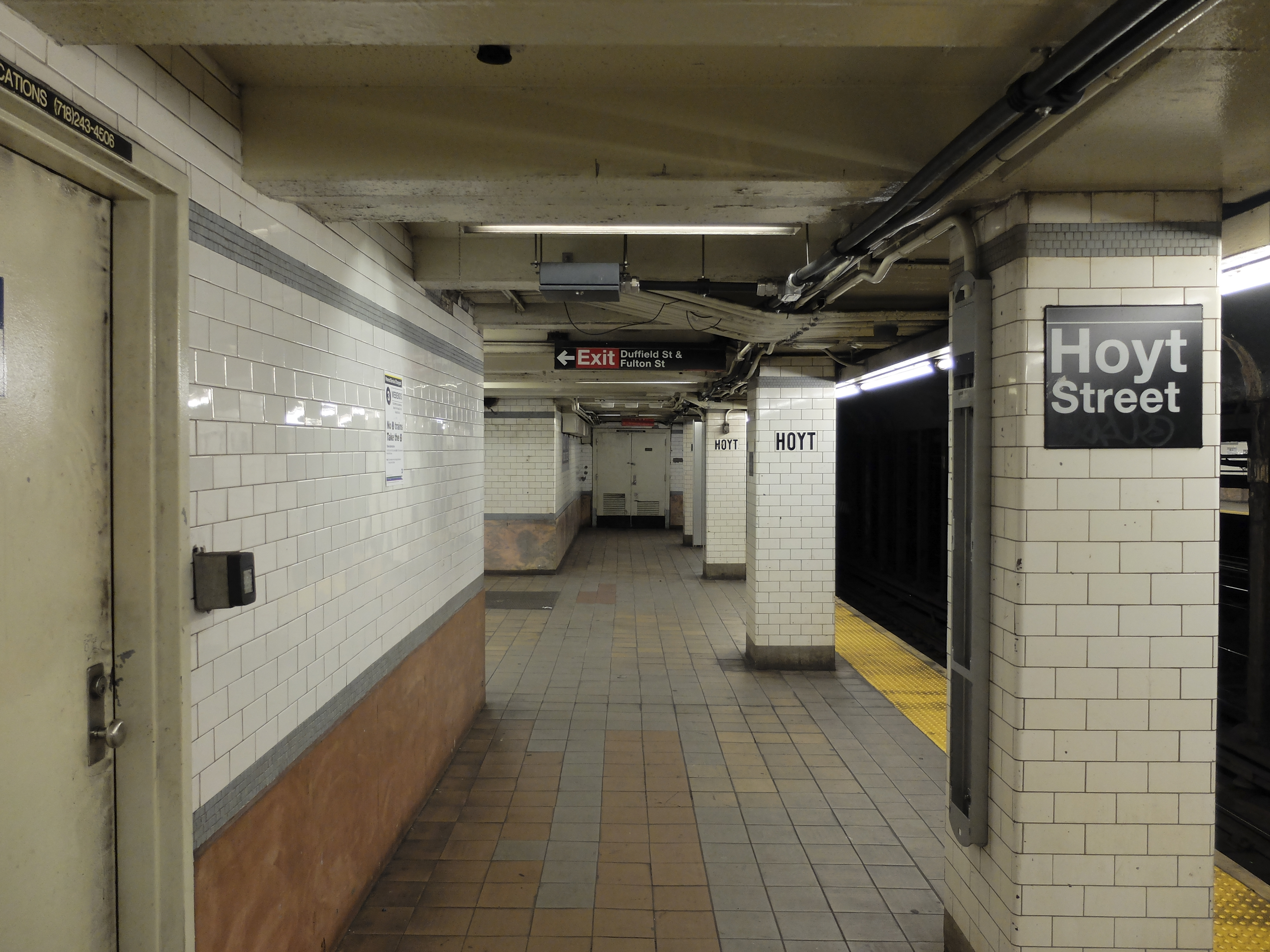 Hoyt